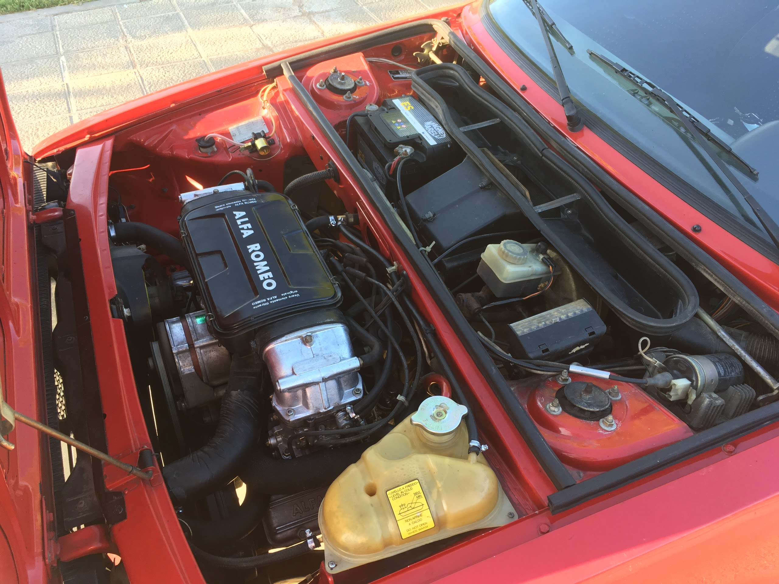 Alfa Romeo Sprint 1.5 Boxer motor